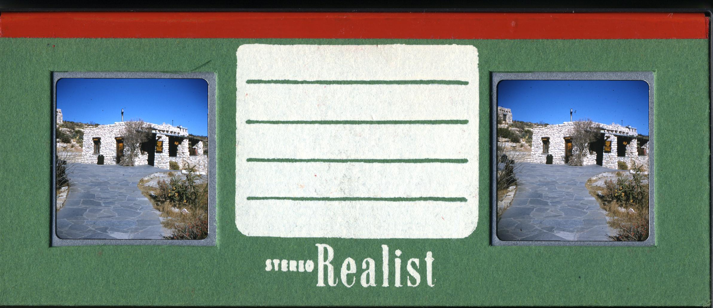 Realist slide mounted by the Realist slide mounting service in North Hollywood CA.